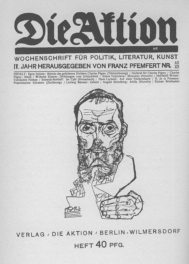 Front cover of the German "Die Aktion" from 1914. Illustration of Charles Péguy's on the occasion of his death made by Egon Schiele